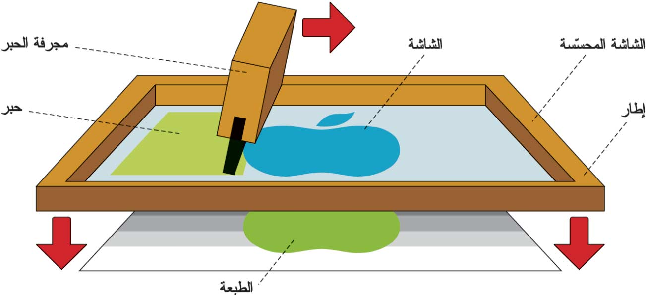 arabic illustrations of silk screen (screen printing) parts